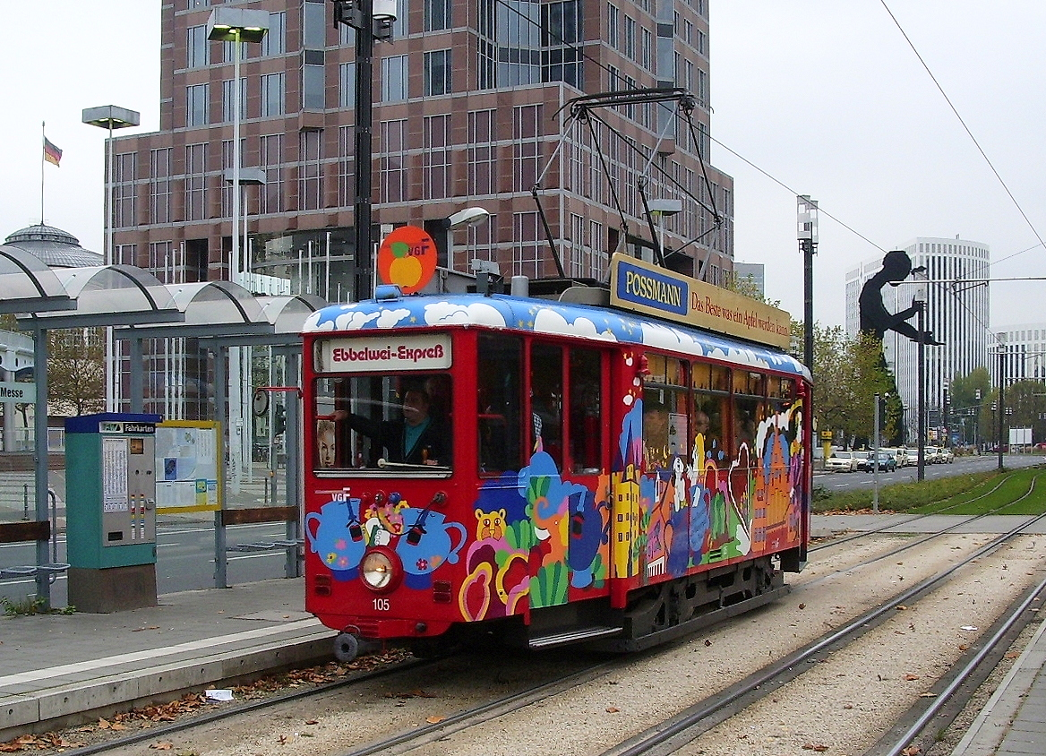 Ebbelwei-Express at Messe (Frankfurt am Main), November 11 2005. Photo by myself, GNU-FDL. Ebbelwei-Express an der Messe (Frankfurt am Main), 11. November 2005. Selbst fotografiert, GNU-FDL.